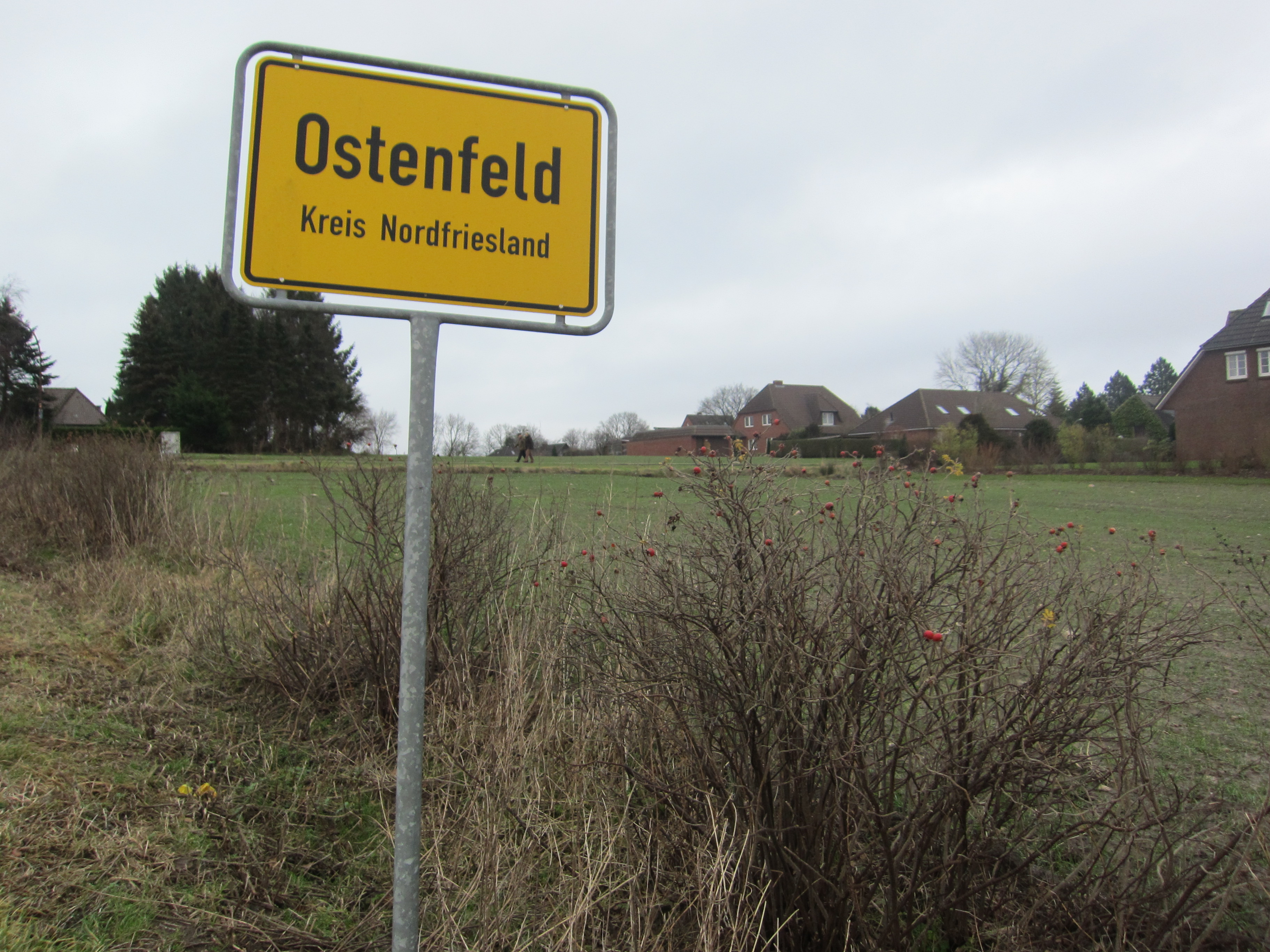 City limit sign "Ostenfeld", Süderkamp